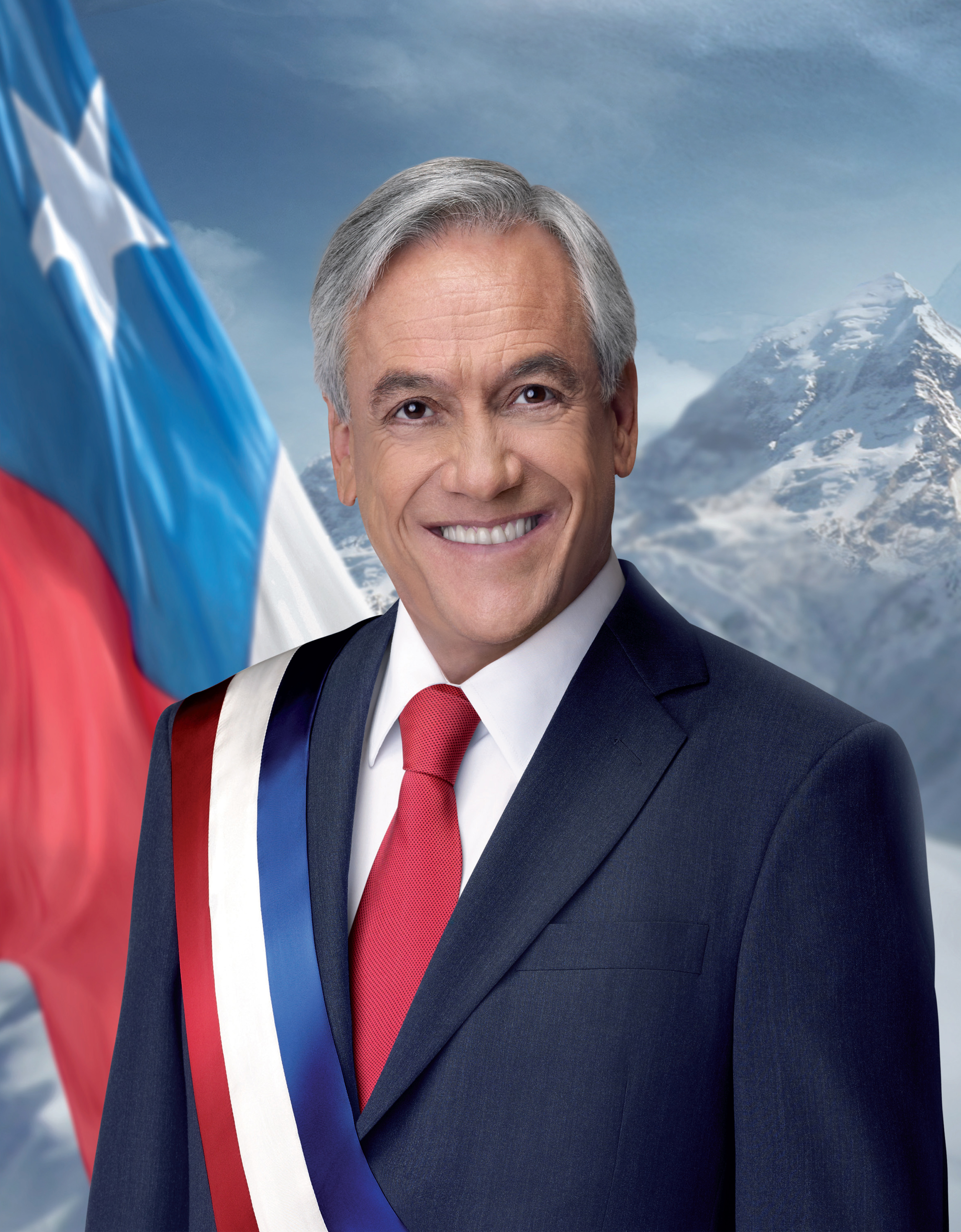 Official photography of the President of the Republic of Chile, Sebastián Piñera Echenique